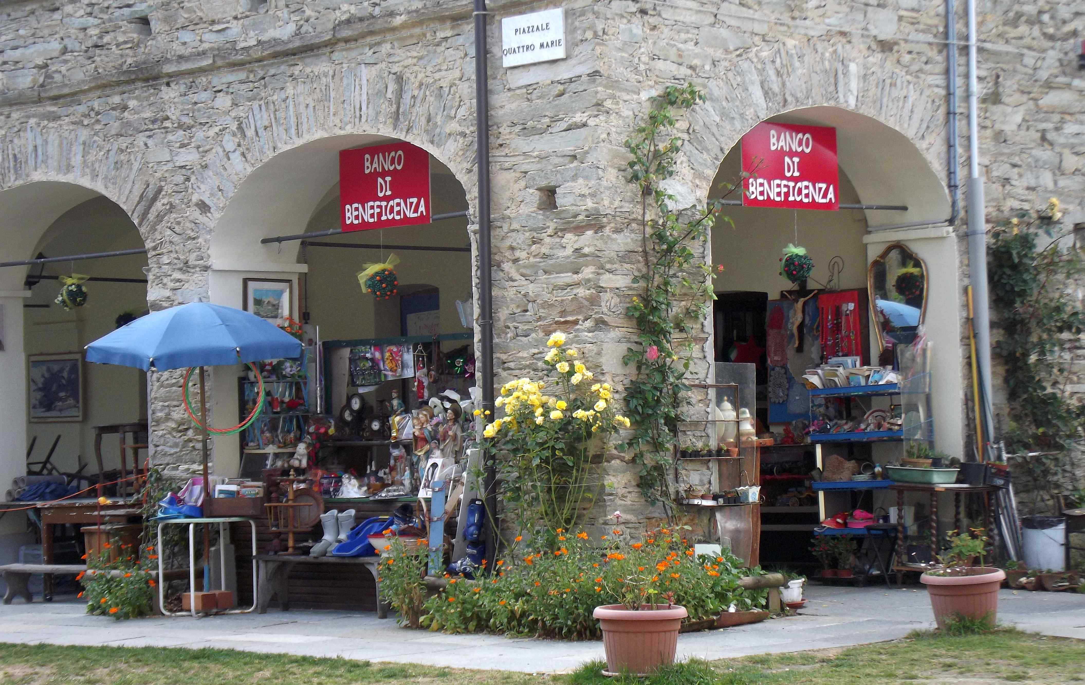 Charity prize draw (Santuario di Valmala, CN, Italy)